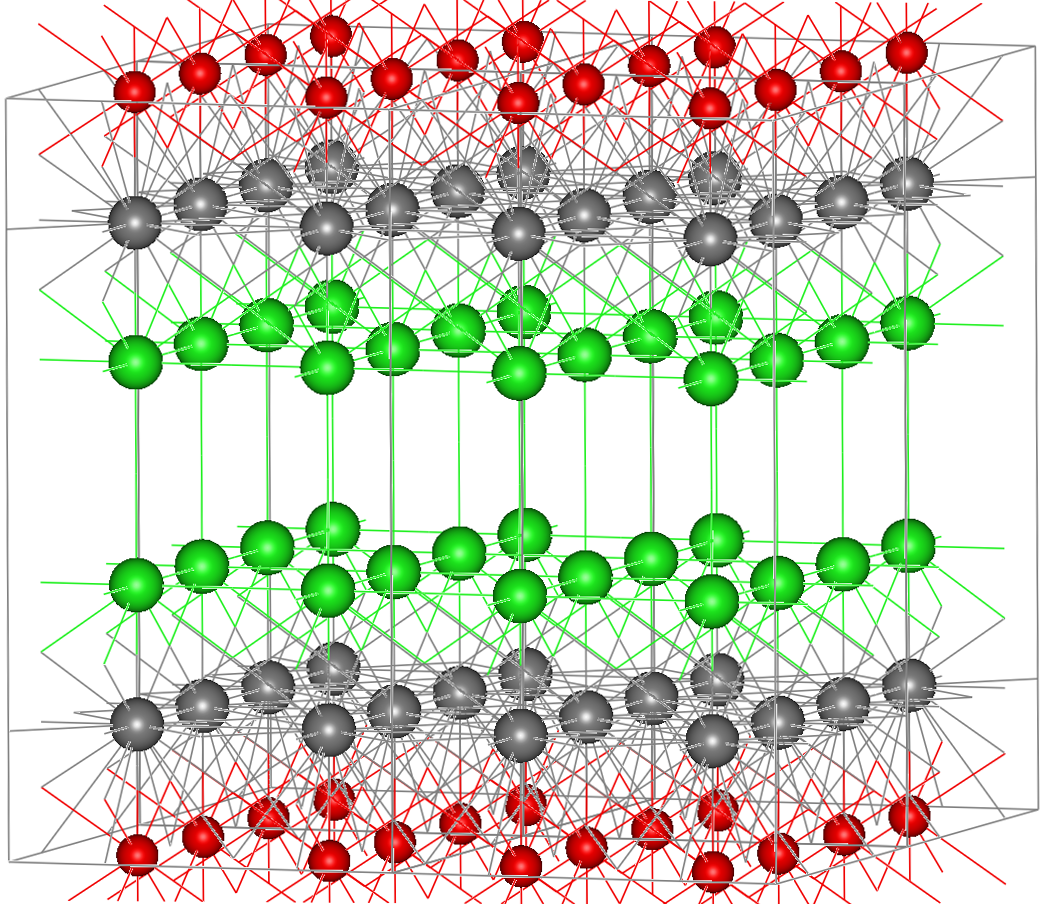 Crystal structure of matlockite (BiOCl). Colors: red - O, green - Cl, grey - Bi. (Z. Kristallogr.,1993,205, 35-40,Keramidas K.G., Voutsas G.P., Rentzeperis P.J.)